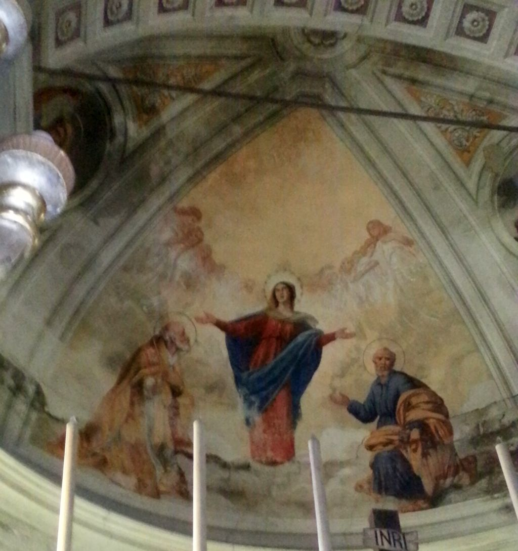 San Sisto di Pomezzana_volta abside